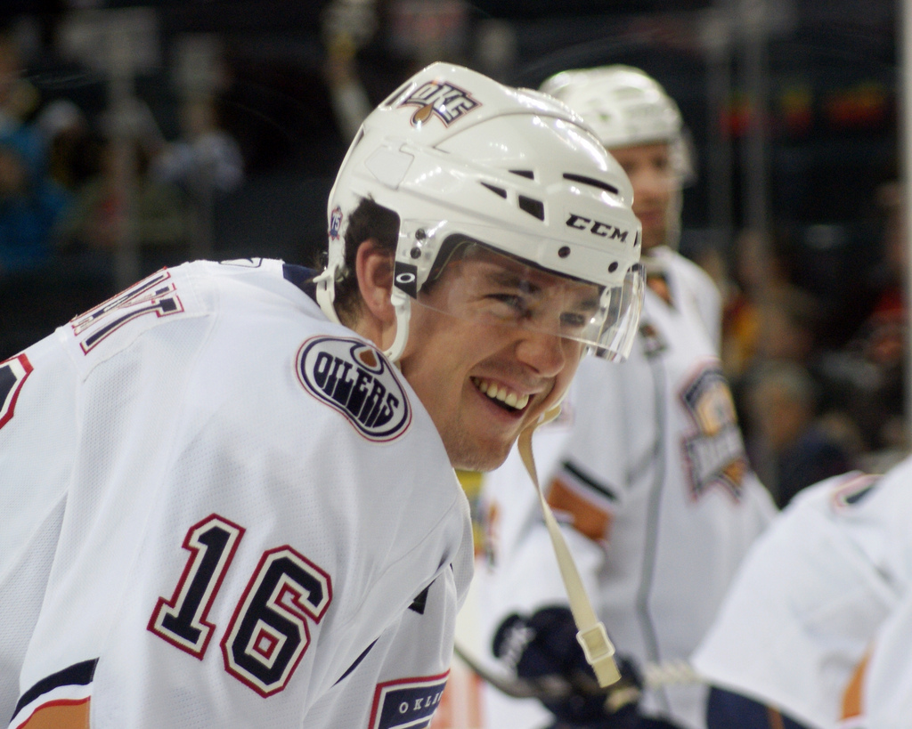 Greg Stewart, born May 21, 1986 in Kitchener, Ontario, is a Canadian professional ice hockey forward. He was selected by the Montreal Canadiens in the 8th round, 246th overall, of the 2004 NHL Entry Draft. Photo was taken on February 18, 2011 during an American Hockey League (AHL) regular season game.